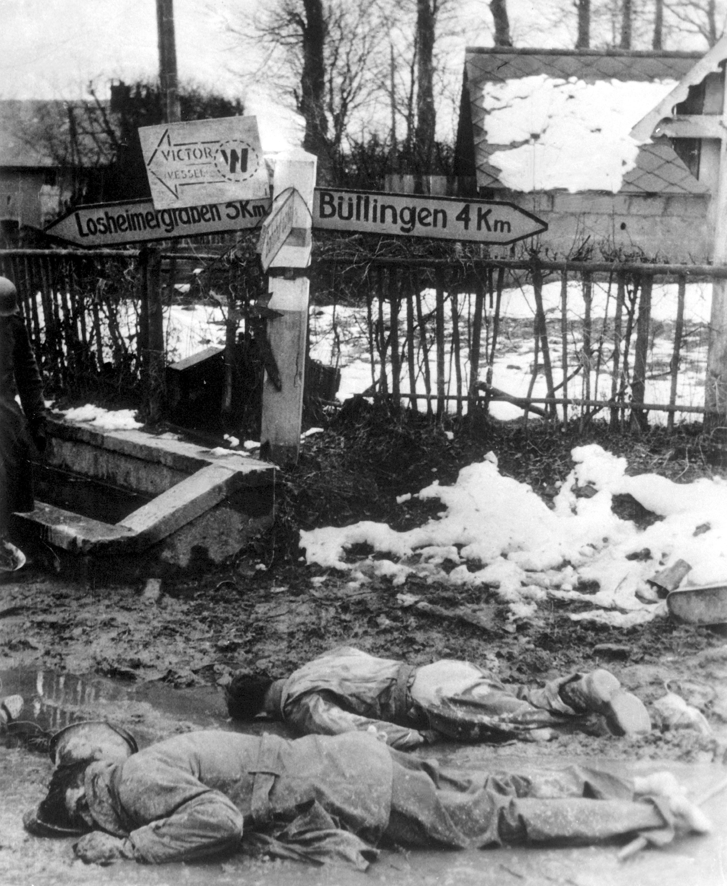 Two dead American soldiers at a road intersection in Honsfeld, Belgium, close to the German border at Losheimergraben, December 17, 1944. German soldiers commonly looted captured U.S. soldiers and their equipment due to constant shortages of German equipment and material. Original description: "American soldiers, stripped of equipment, lie dead, face down in the slush of a crossroads somewhere on the western front. Note the bare feet of the soldier in the foreground. Captured German Photograph. Belgium, ca. December 1944."